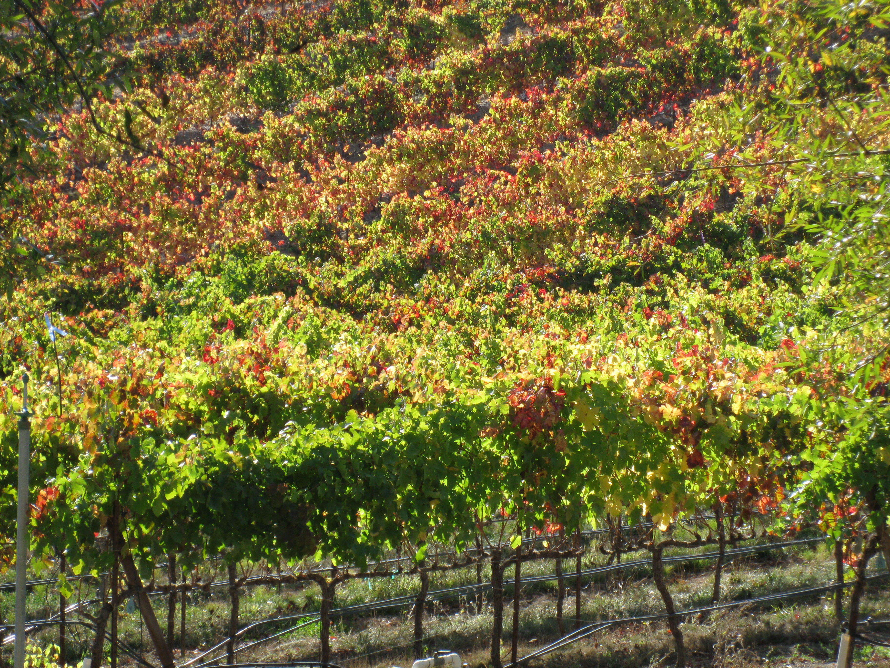 Vineyards in the California wine region of the Russian River Valley in Sonoma